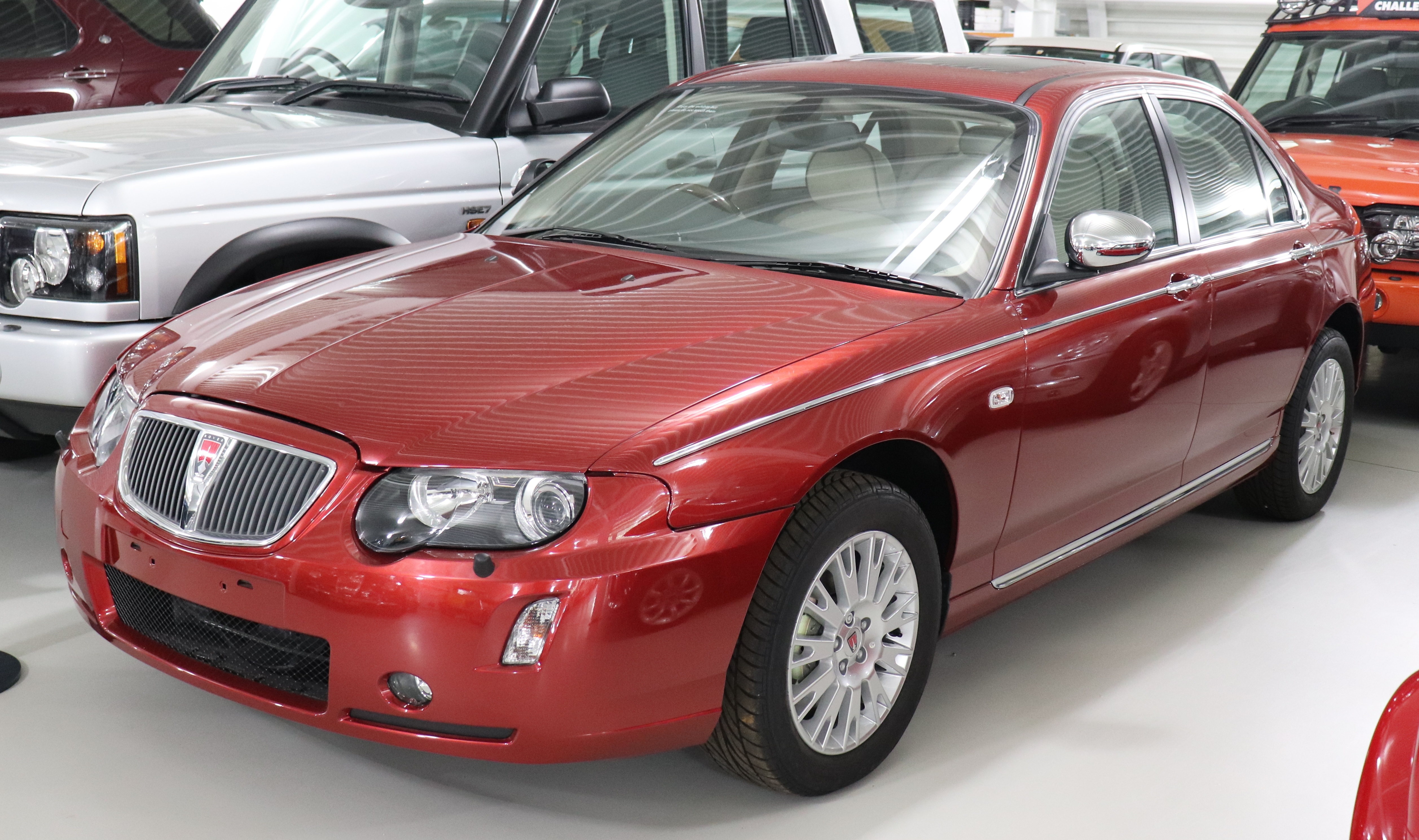 2005 Rover 75 CDT Connoisseur 1.9 Taken at the British Motor Museum, Gaydon